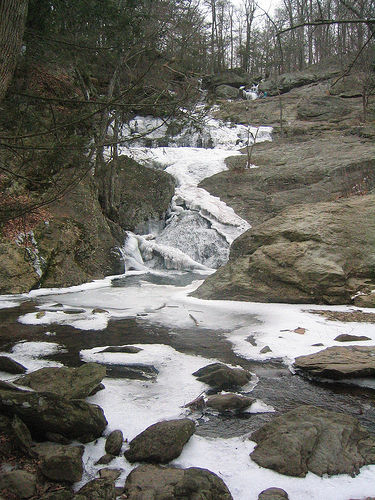 Cunningham Falls, in Maryland's Cunningham Falls State Park, is partially frozen on a cold February afternoon.